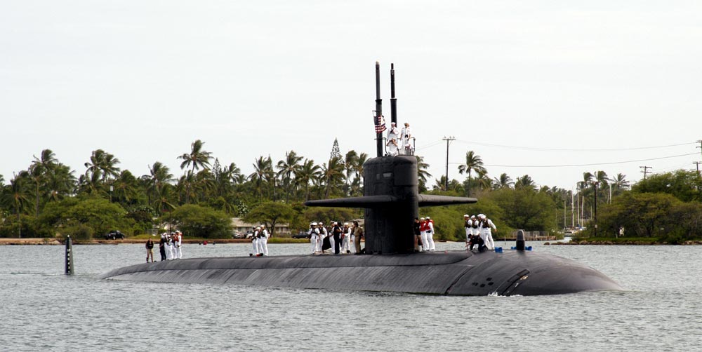 030724-N-8157C-009 Pearl Harbor, Hawaii (en:24 July, en:2003) -- The Los Angeles class attack submarine USS Key West (SSN-722) pulls into its homeport in Pearl Harbor, Hawaii. Key West is returning from deployment in support of Operation Iraqi Freedom. U.S. Navy photo by Photographer’s Mate 2nd Class Dennis C. Cantrell. (RELEASED) Source: [1] from [2]